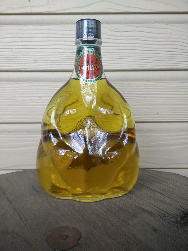 A zaftig bottle of Damiana liqueur.